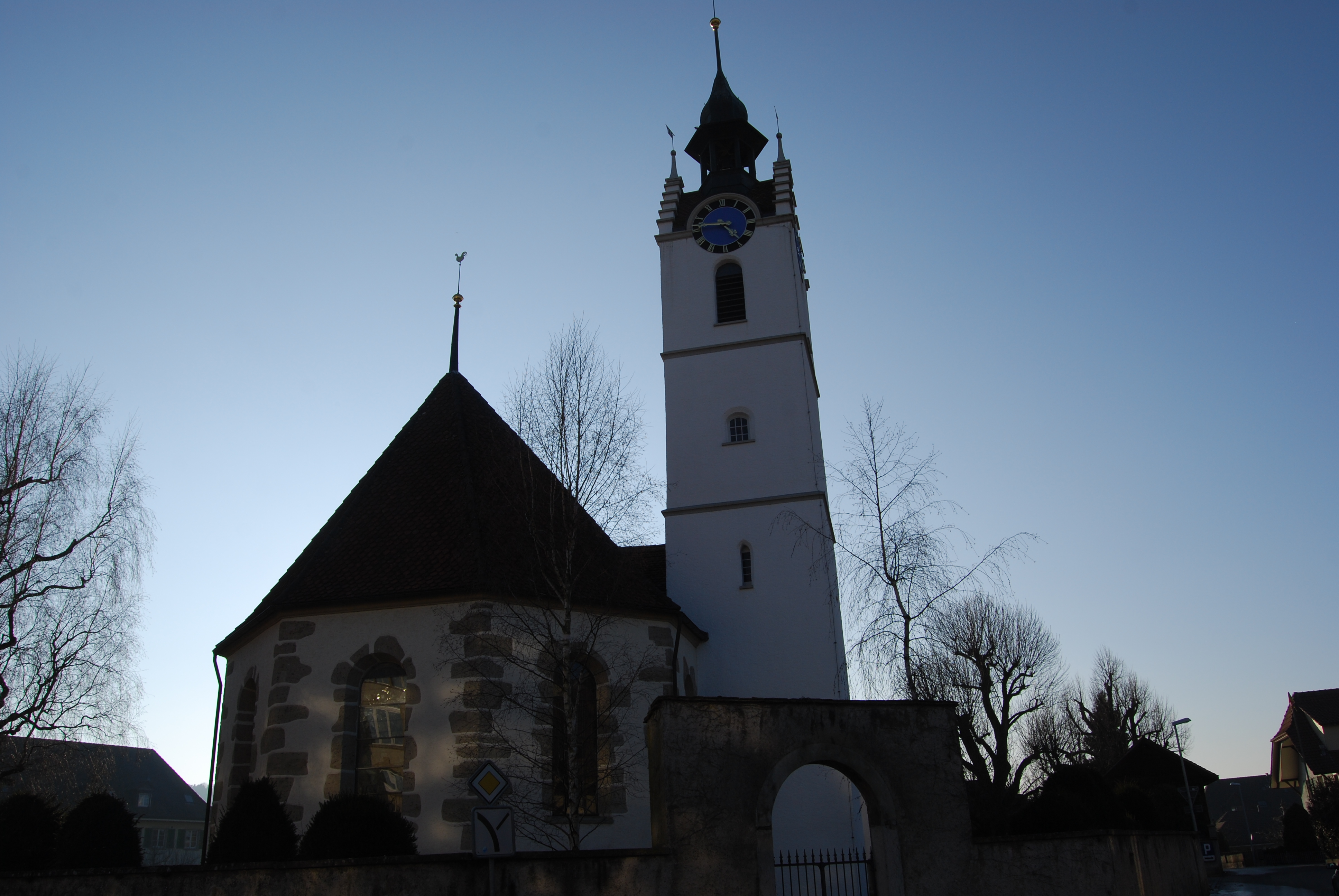 Protestant Church of Lotzwil, canton of Bern, Switzerland